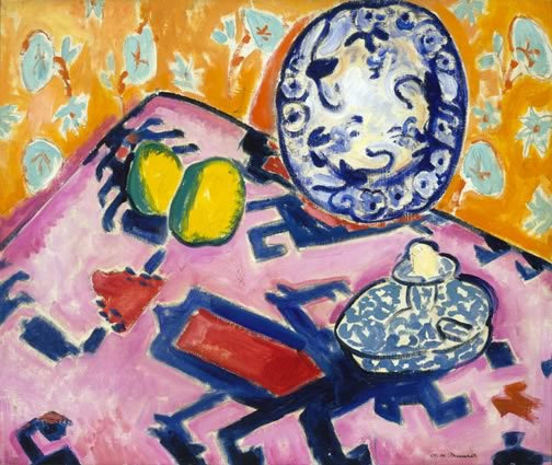 Alfred H. Maurer (1868–1932): Fauve Still Life, circa 1908-10, Oil on canvas